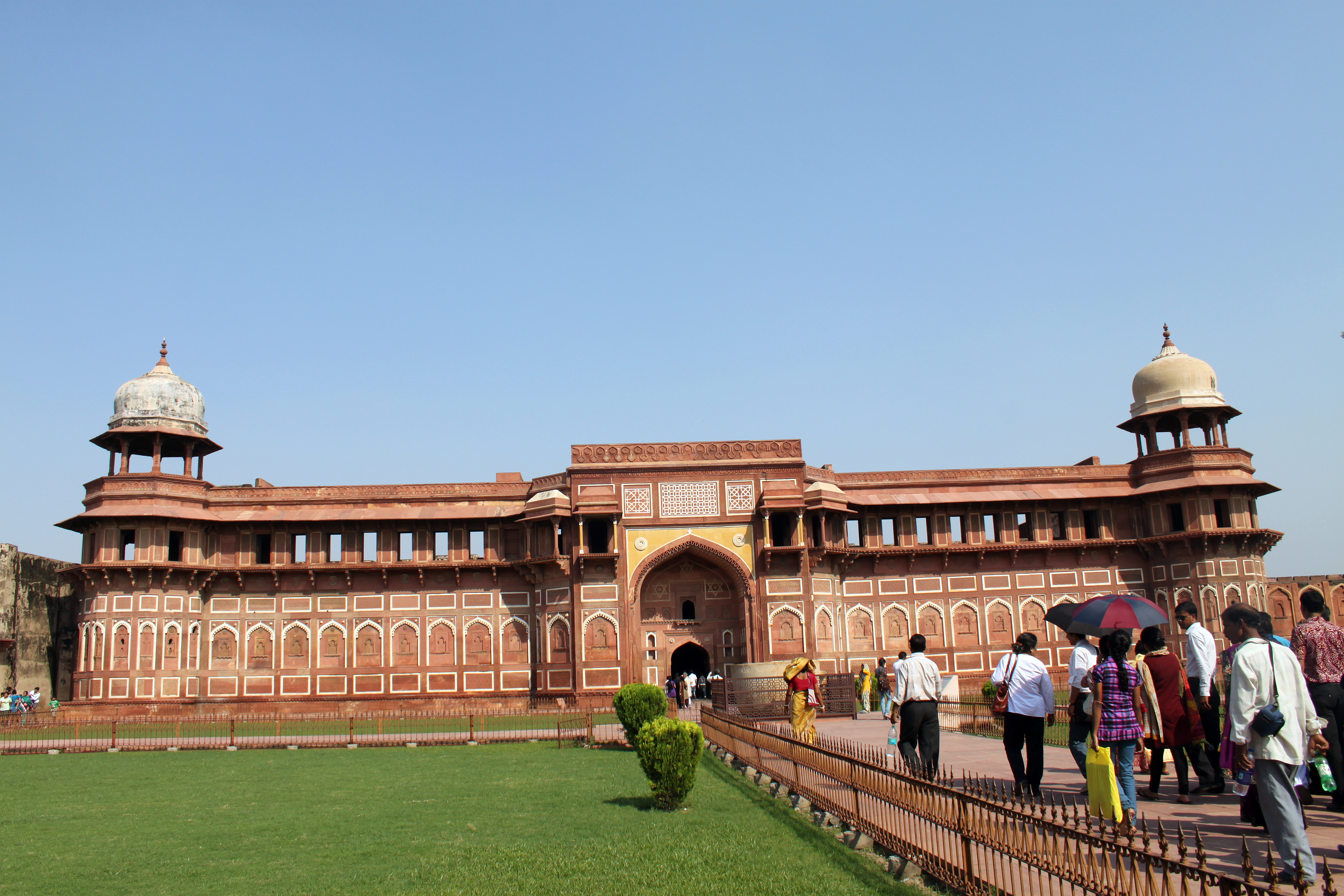 Red Fort, Agra